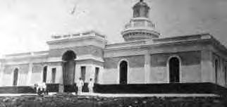 Old Lighthouse in Fajardo, Puerto Rico c.1893